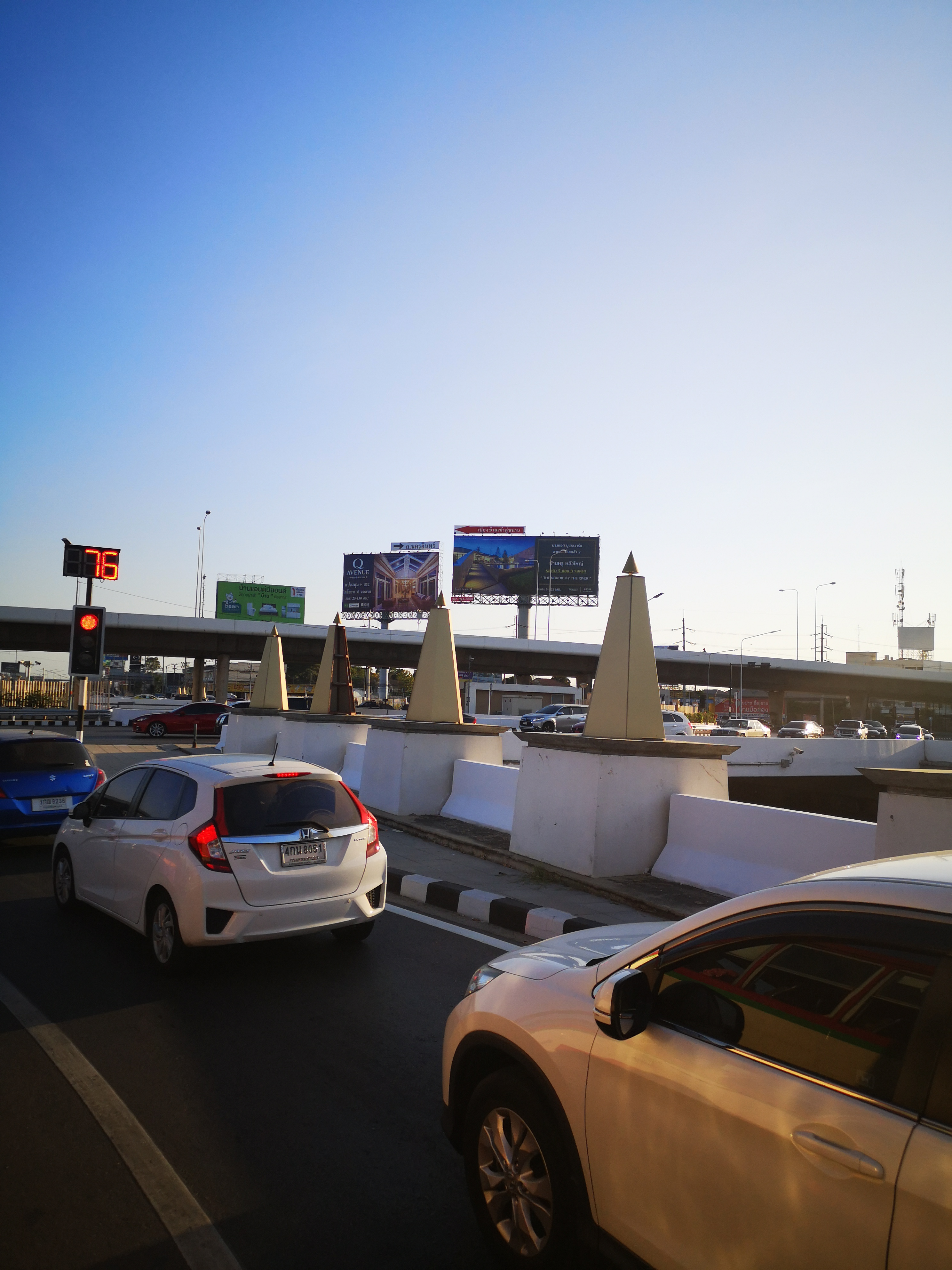 Ratchaphruek Circle